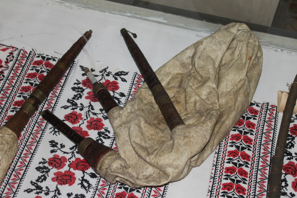 Koza (Goat ?), Museum of Folk Musical Instruments in Uzhgorod